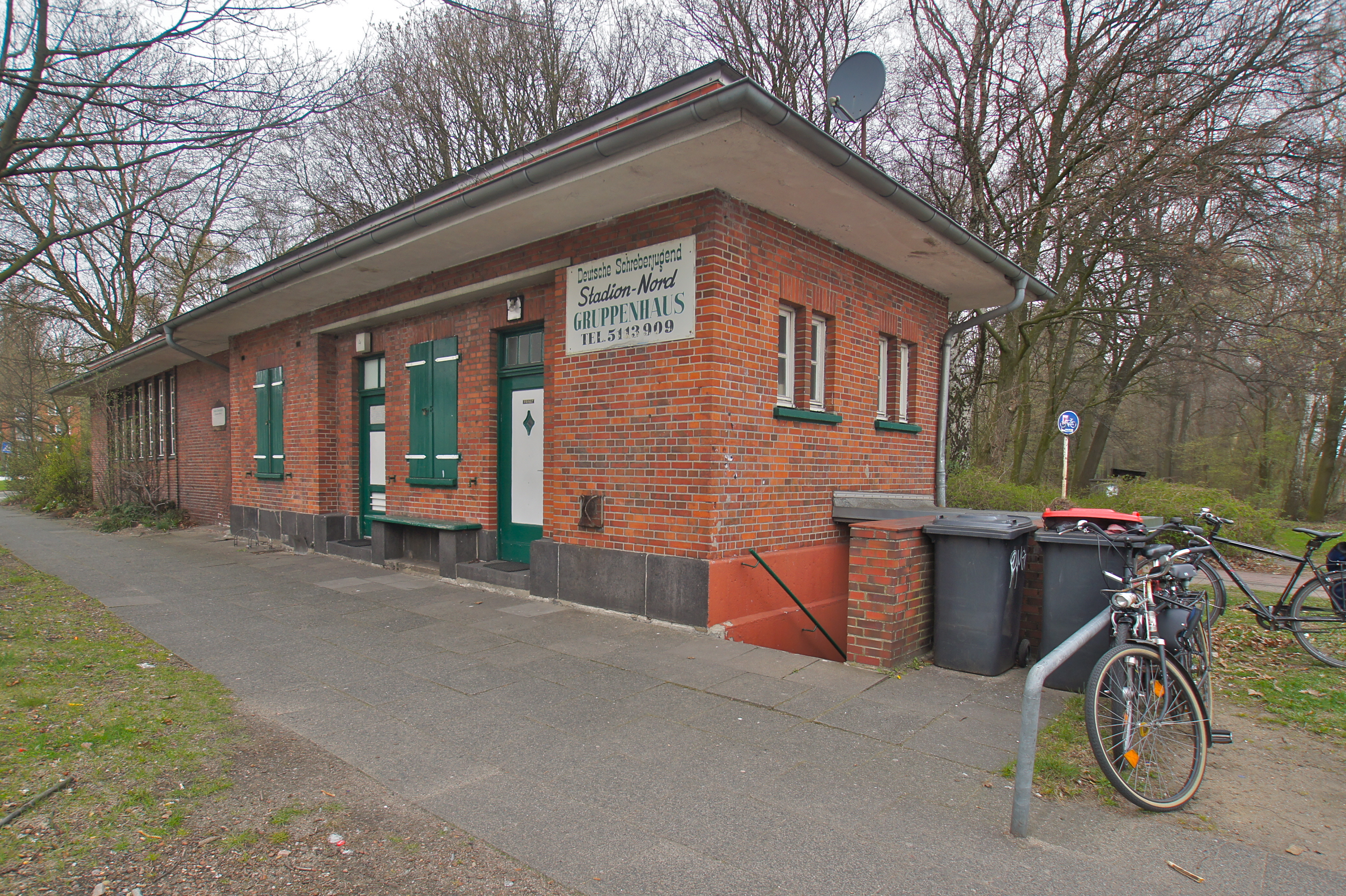 Hamburg (Groß Borstel), Germany: House of the Deutsche Schreberjugend at the beginning of the Borsteler Chaussee